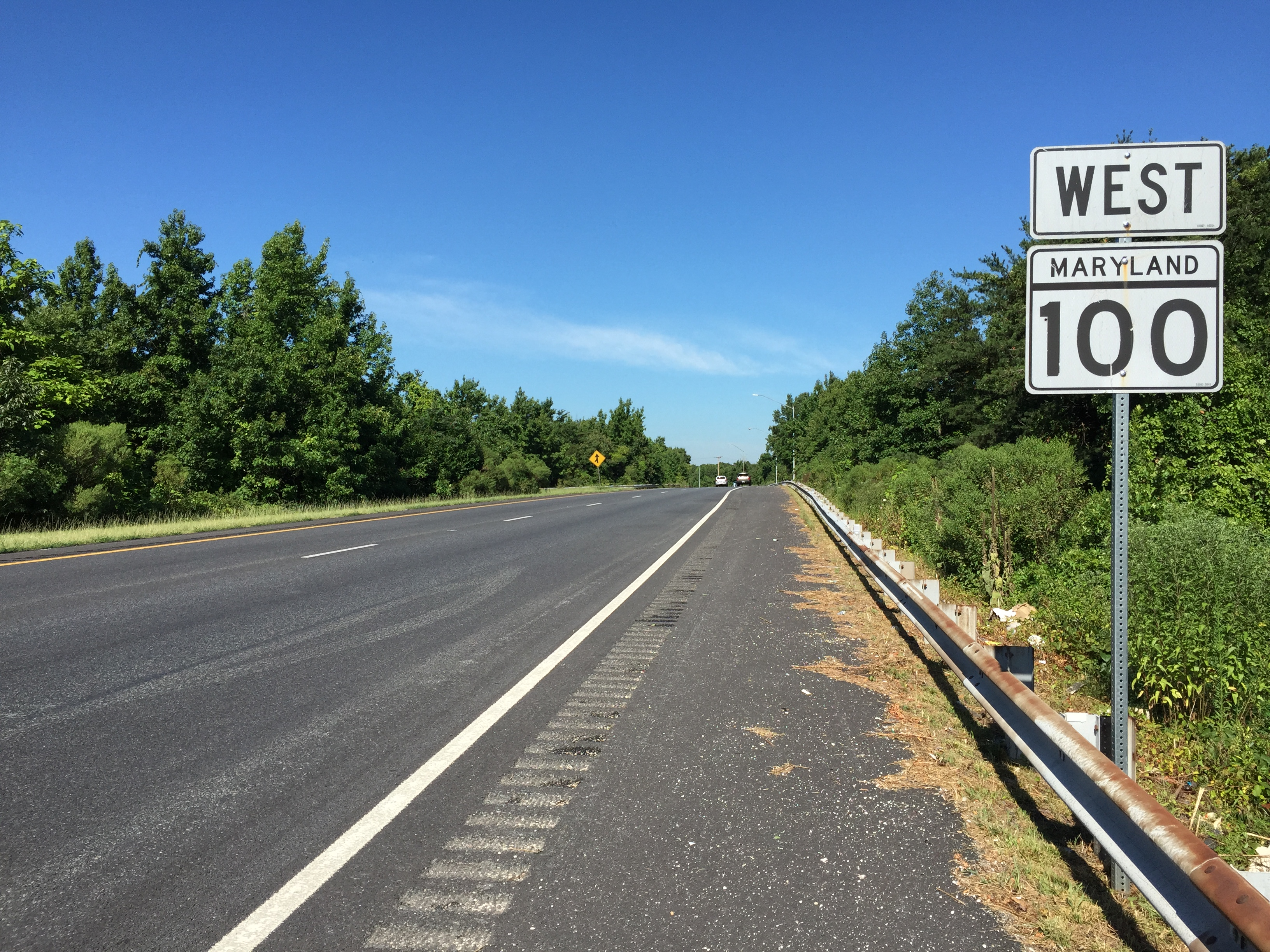 View west along Maryland State Route 100 (Paul T. Pitcher Memorial Highway) between Maryland State Route 10 (Arundel Expressway) and Maryland State Route 2 (Governor Ritchie Highway) in Pasadena, Anne Arundel County, Maryland